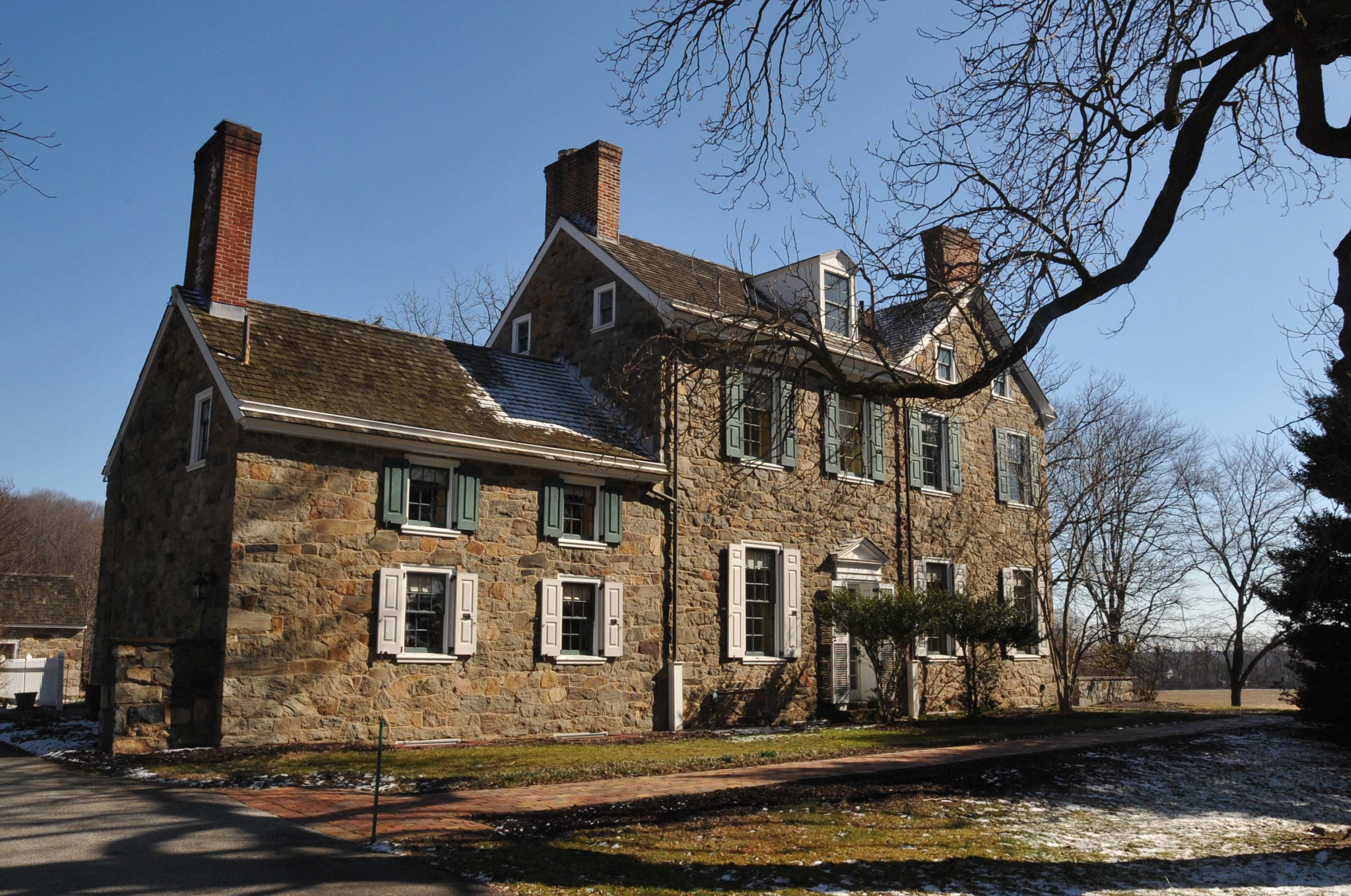 THE HOUSE WAS BUILT IN 1790 BUT JUDGE MORRIS BOUGHT IT IN 1933. LOCATED IN WHITE CLAY STATE PARK HE WAS VERY INFLUENTIAL IN THE DECISIONS TO MAKE DELAWARE VERY CORPORATE FRIENDLY.